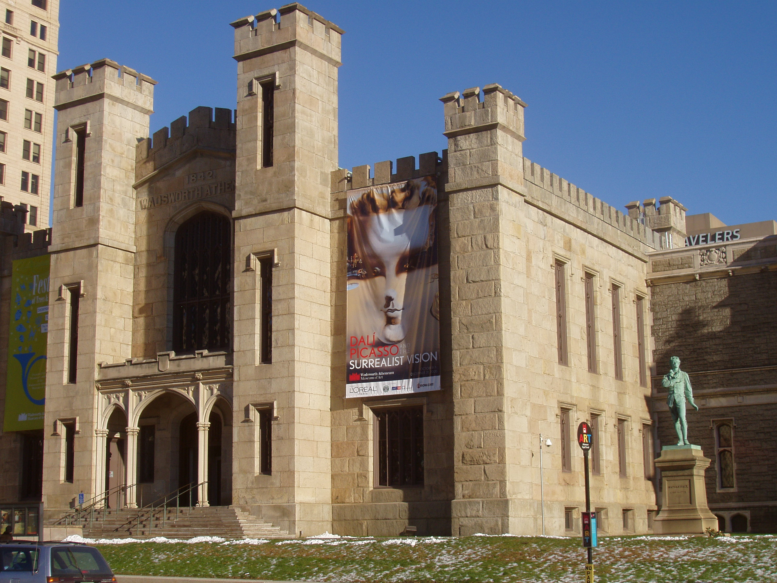 Wadsworth Atheneum, Hartford, Connecticut. The original portion of the museum. Photograph taken by me, November 2005.